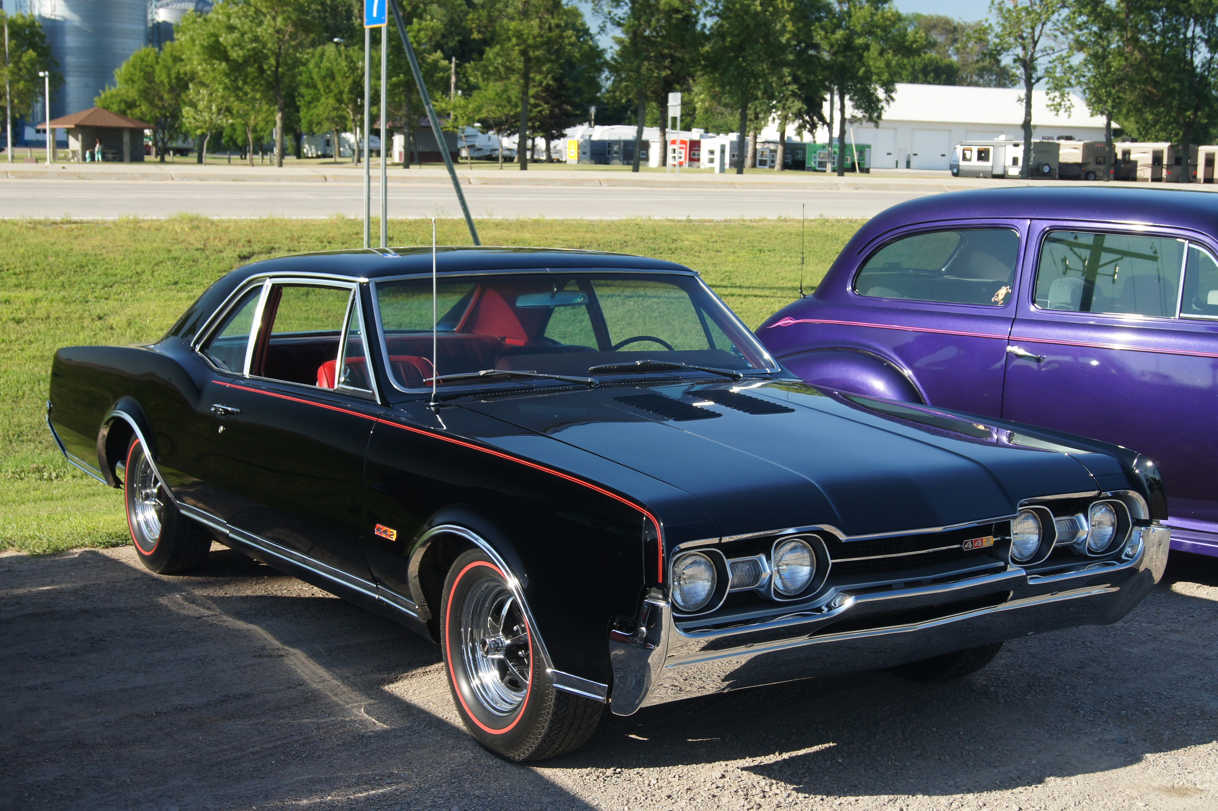 Cruise Night Donner's Crossroads Truck Stop, Café & Convenience Store Clara City, MInnesota Click here for more car pictures at my Flickr site.